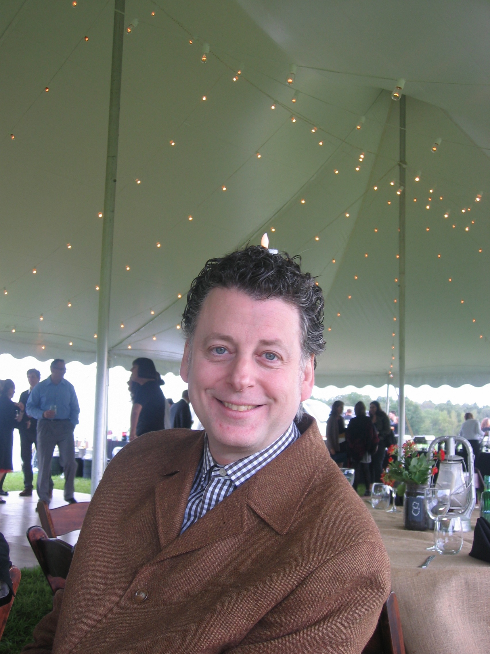 Maurice Berger, September 2011